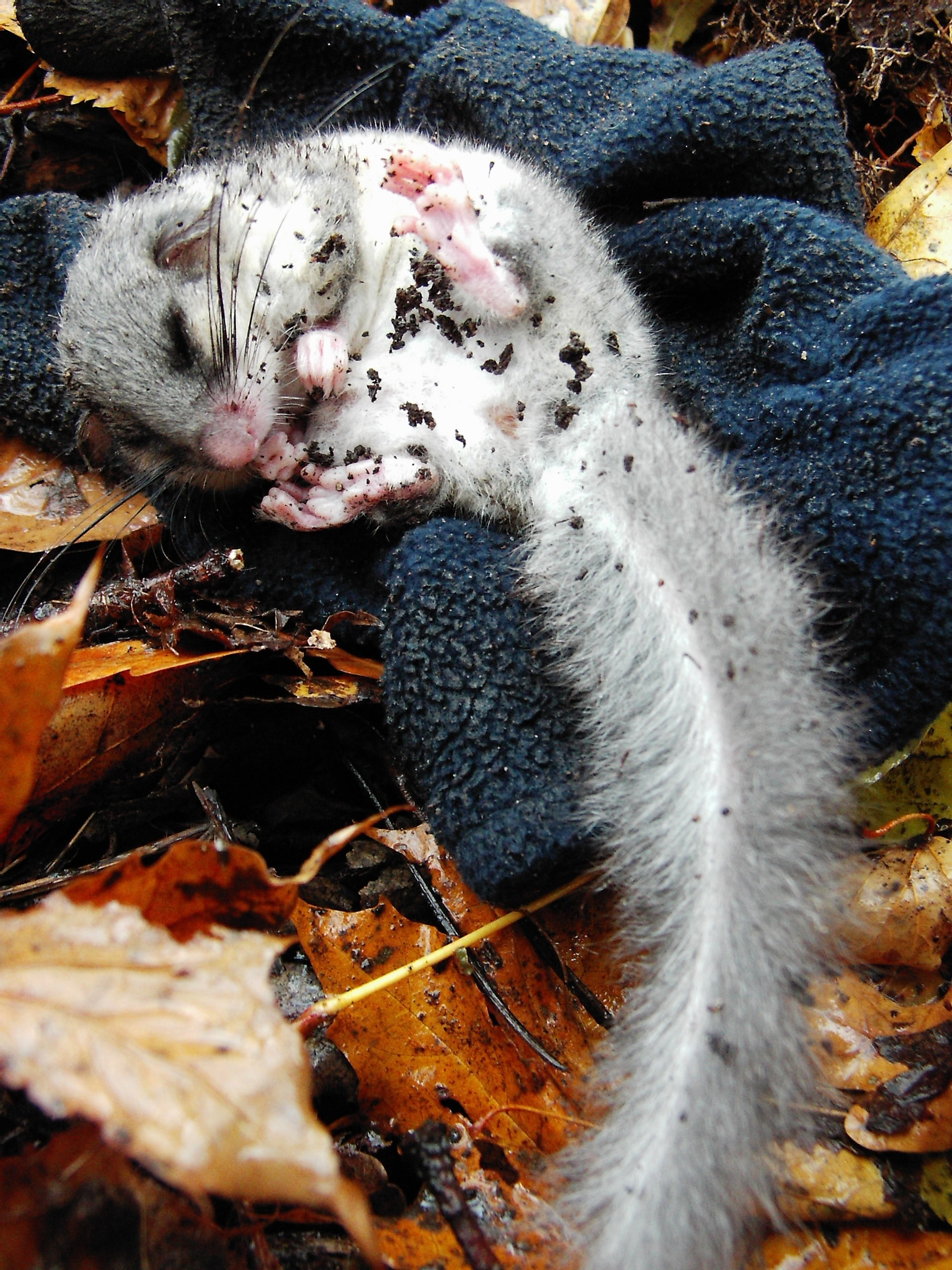 Edible dormouse (Glis glis) in winter hibernation, Owls' Mountains, Poland